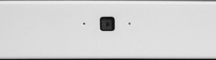 A close-up snapshot of the built-in iSight on a White MacBook.